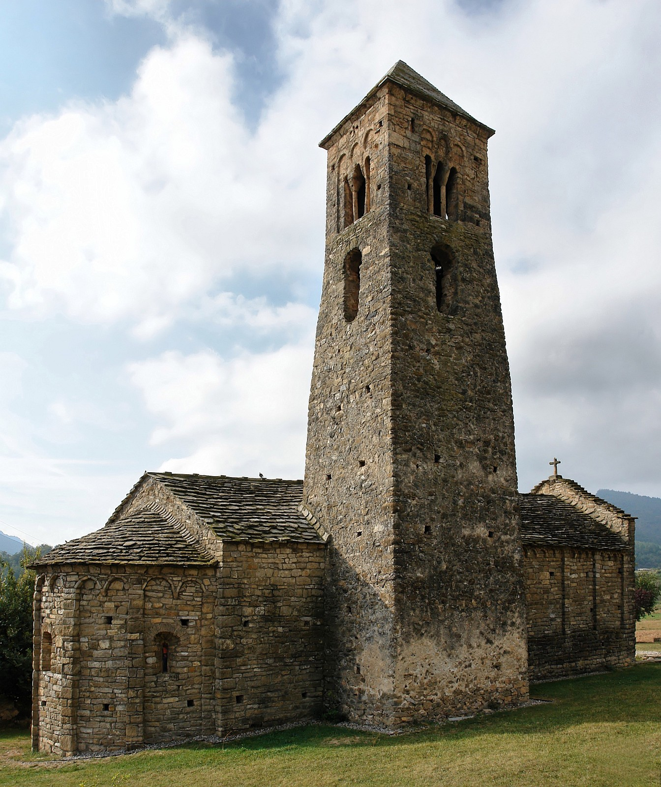 Roman church of Sant Climent - Coll de Nargó (Spain)